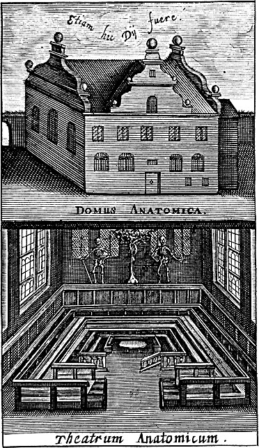 Illustration of the Domus Anatomica in Copenhagen, Denmark in Thomas Bartholin's book Cista Medica